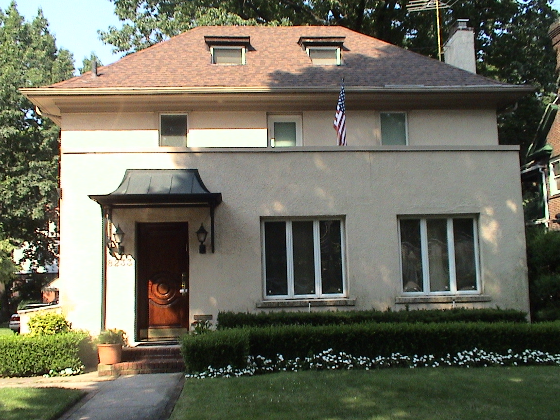 files from my last capturing adventure from Mississippi and New York, Kew Gardens and else. House in Kew Gardens